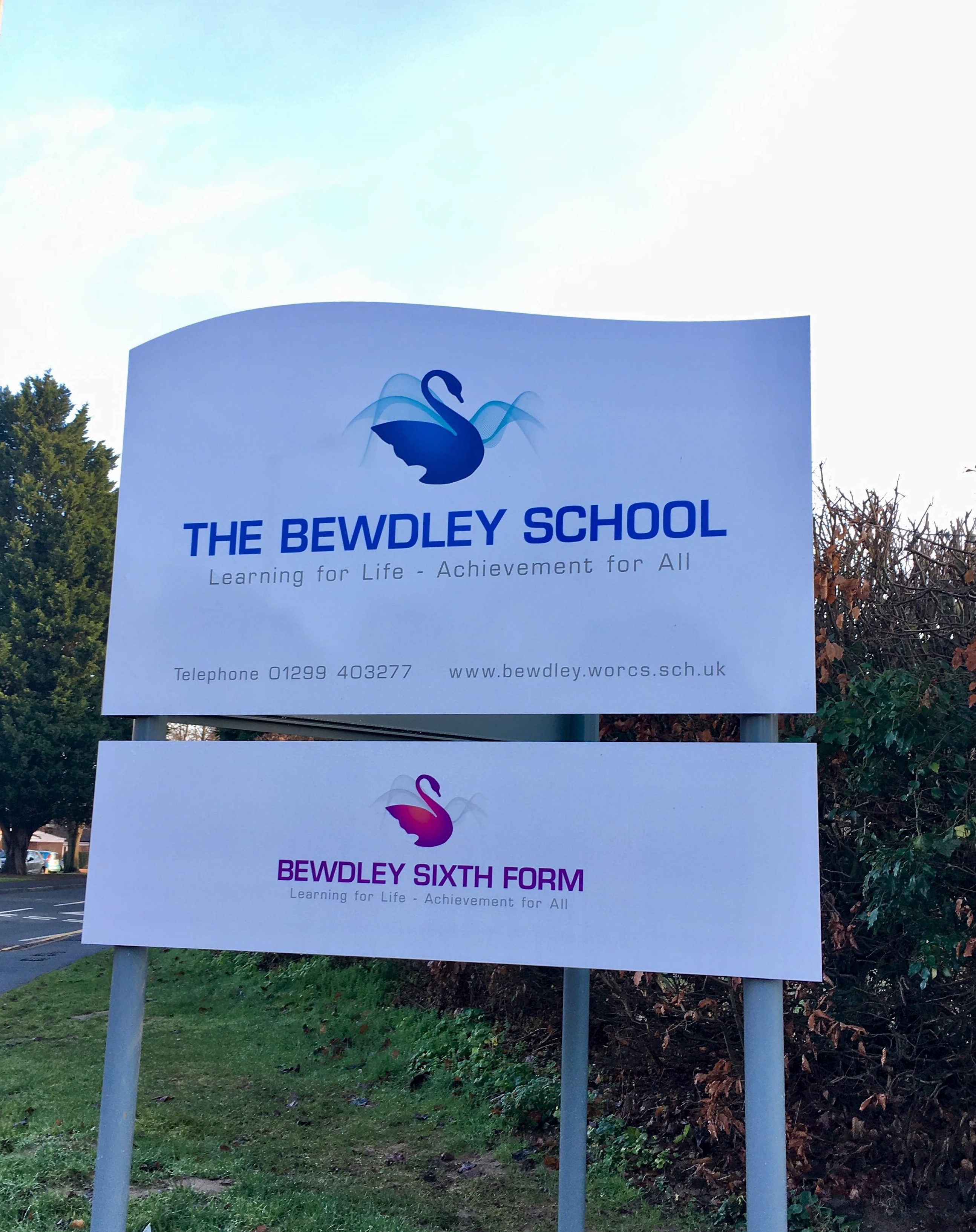 Image of the new Bewdley School entrance.